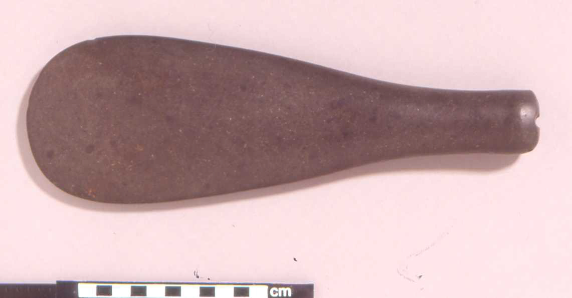 H000085 Stone club (patu onewa). Collected in New Zealand during Cook's voyages to the Pacific, 1768-1780. Stone clubs like this were greatly admired by the Europeans because of the amount of work required to manufacture them with stone tools.